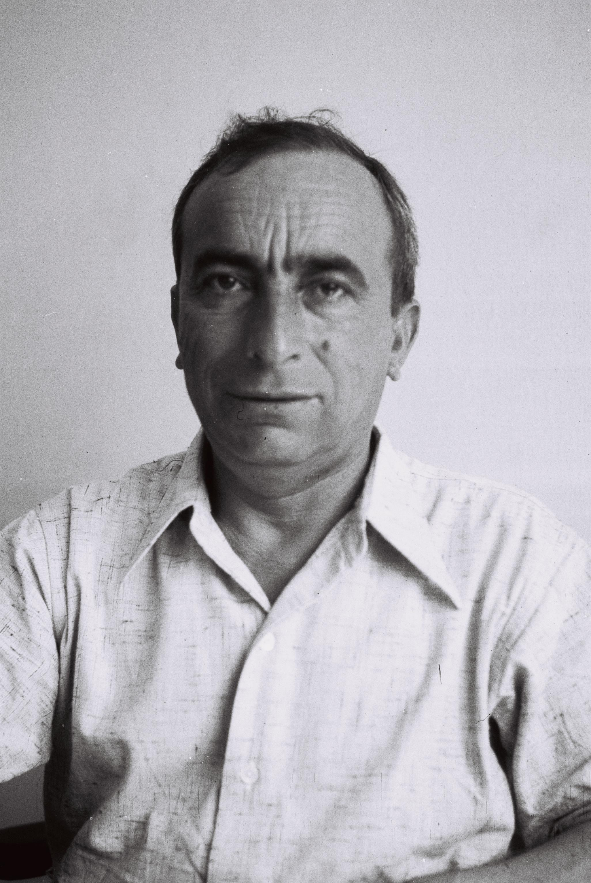 ITZHAK LUFBAHN, JOURNALIST.